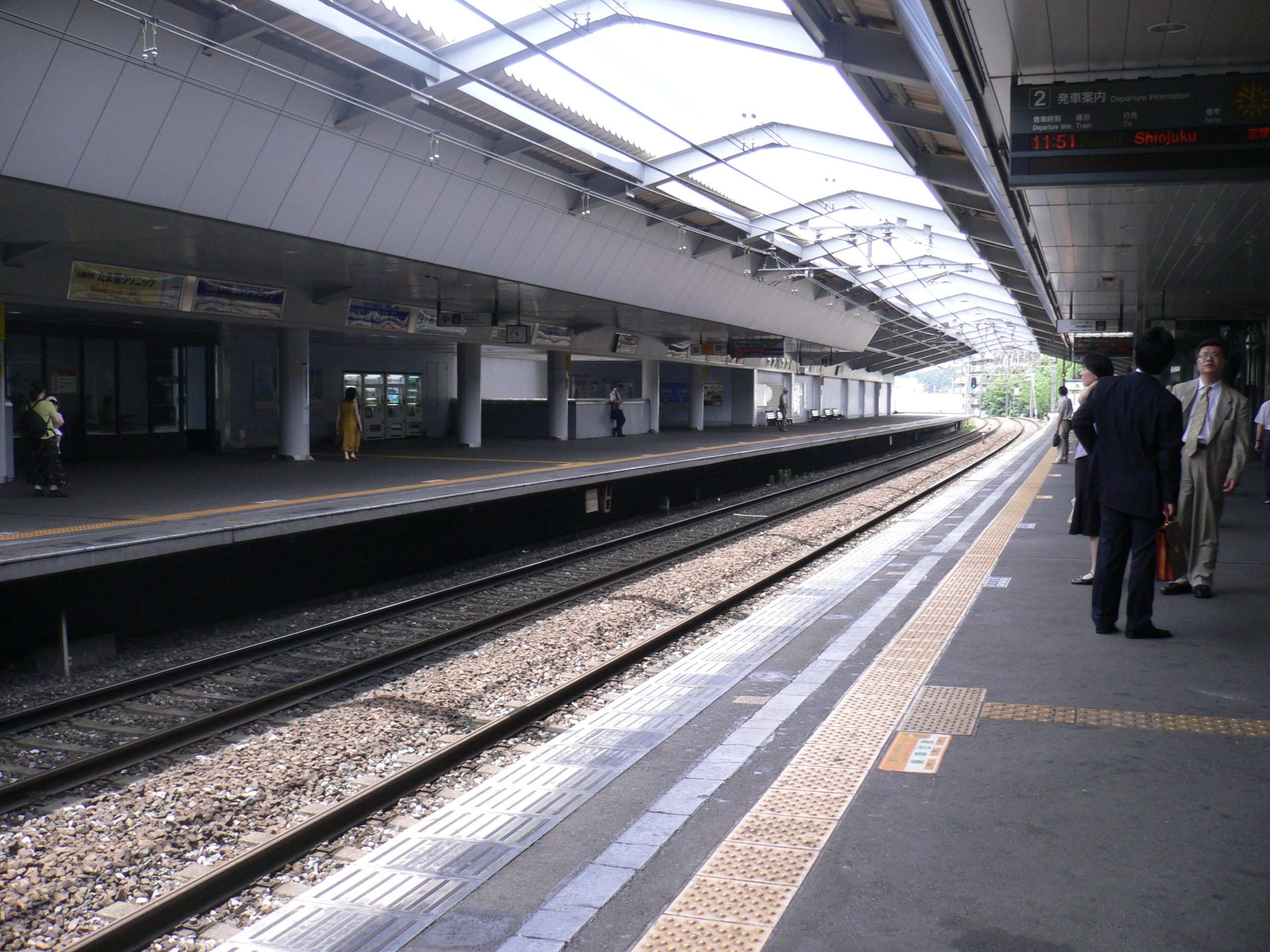 Keio Nagayama Station, Tama C, Tokyo M.